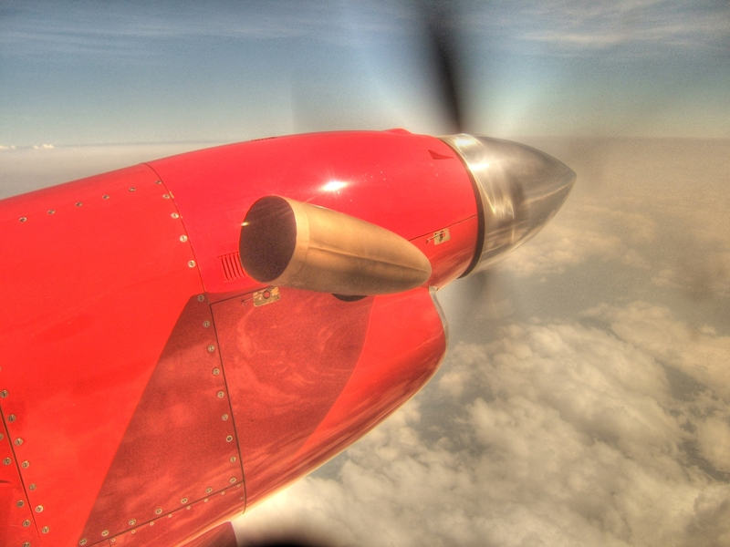 Pratt & Whitney PT6A-67D turboprop engine on a Beechcraft 1900D by Raytheon Aircrafts.